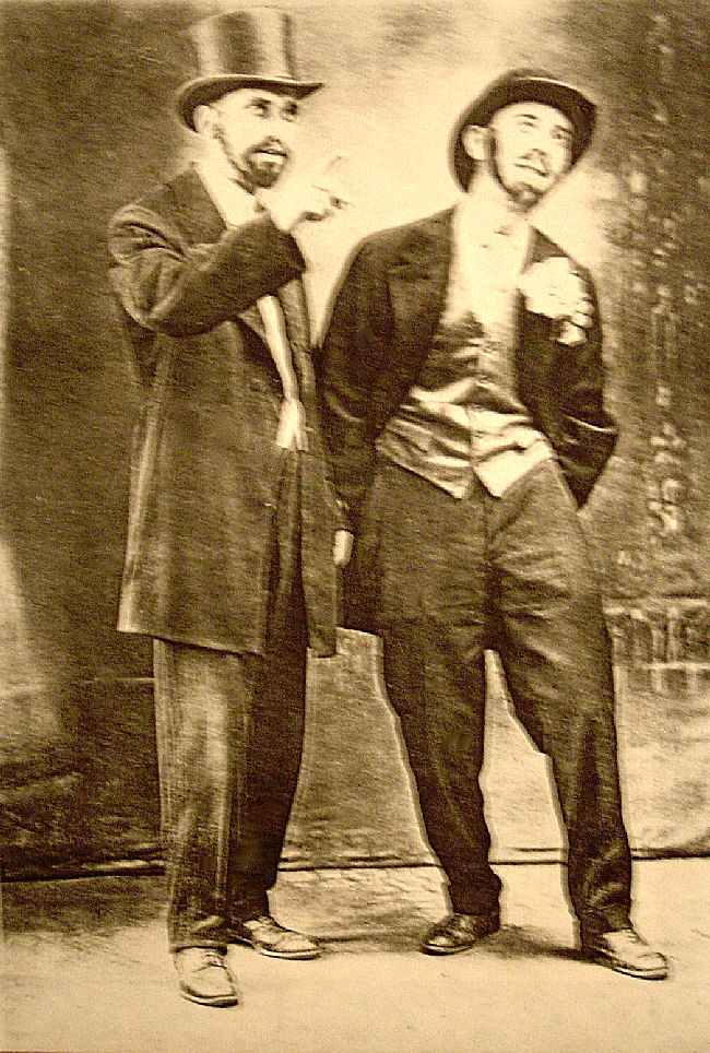 Hershel Zerdanowski aka Harry Jordan at vaudeville stage